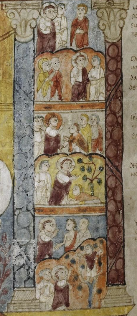 Folio 129v of the St. Augustine Gospels (Cambridge, Corpus Christi College, MS 286), Portrait of Luke - Detail of right hand scenes